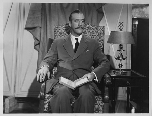 Argentine actor Adolfo Linvel in La gata (1947, Mario Soficci) on Website "Acceder" (access) Catalog, Cultural Contents Network of Cultural Heritage, Ministry of Culture, Government of the City of Buenos Aires.